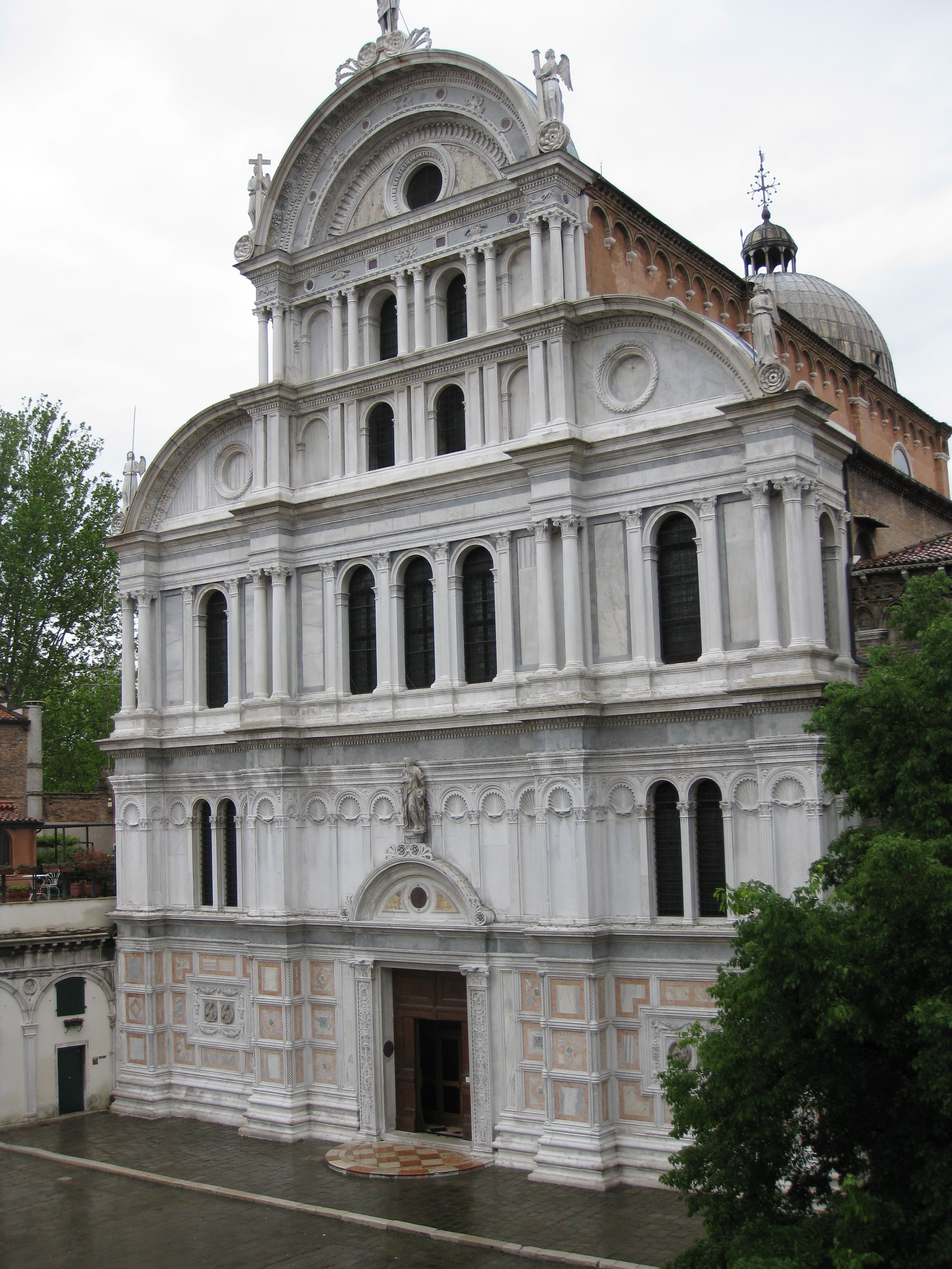 Church and Monestary of San Zacaria כנסיית סן זכריה